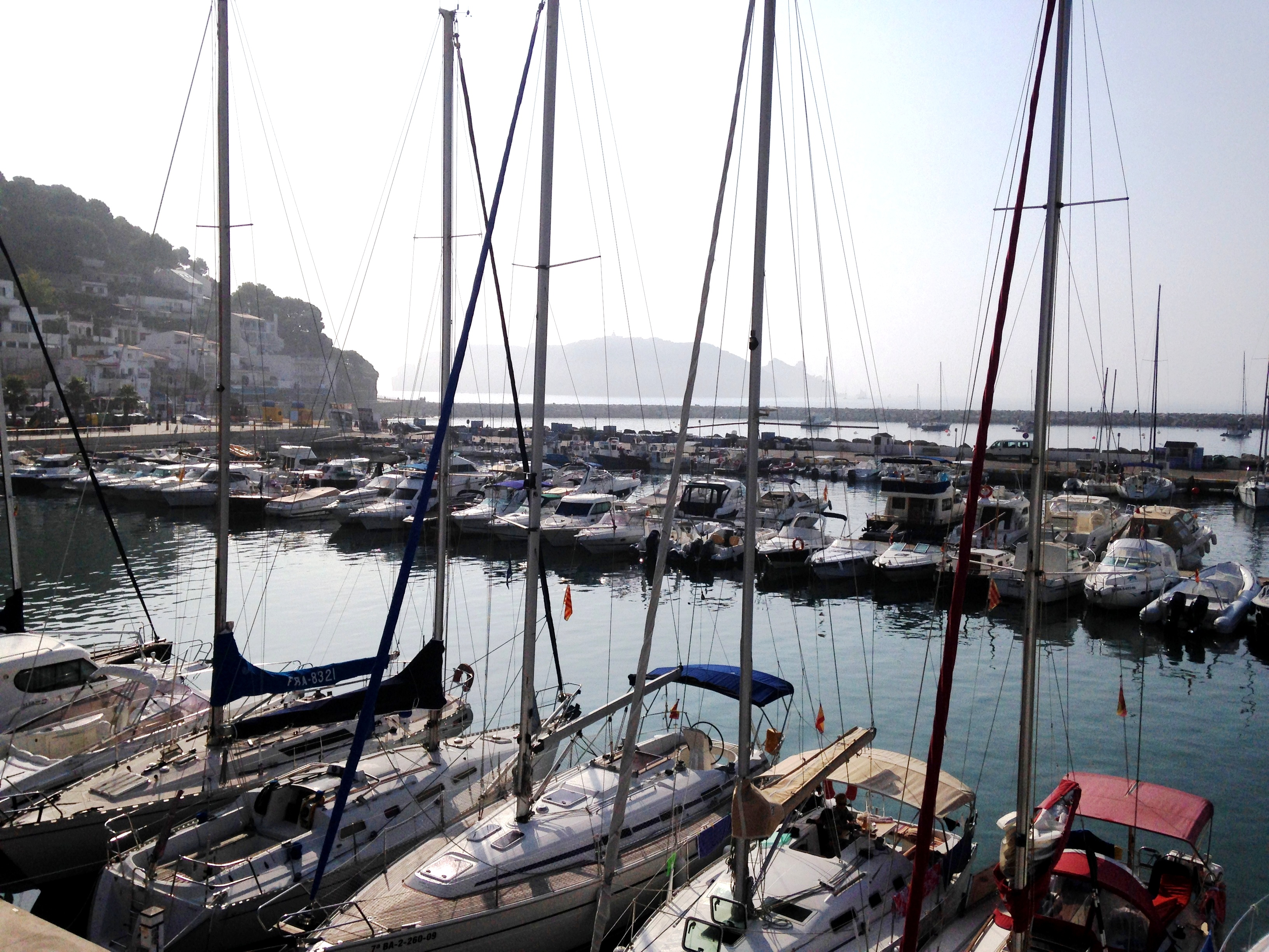 Interior Basin